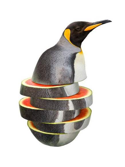 Hybrid